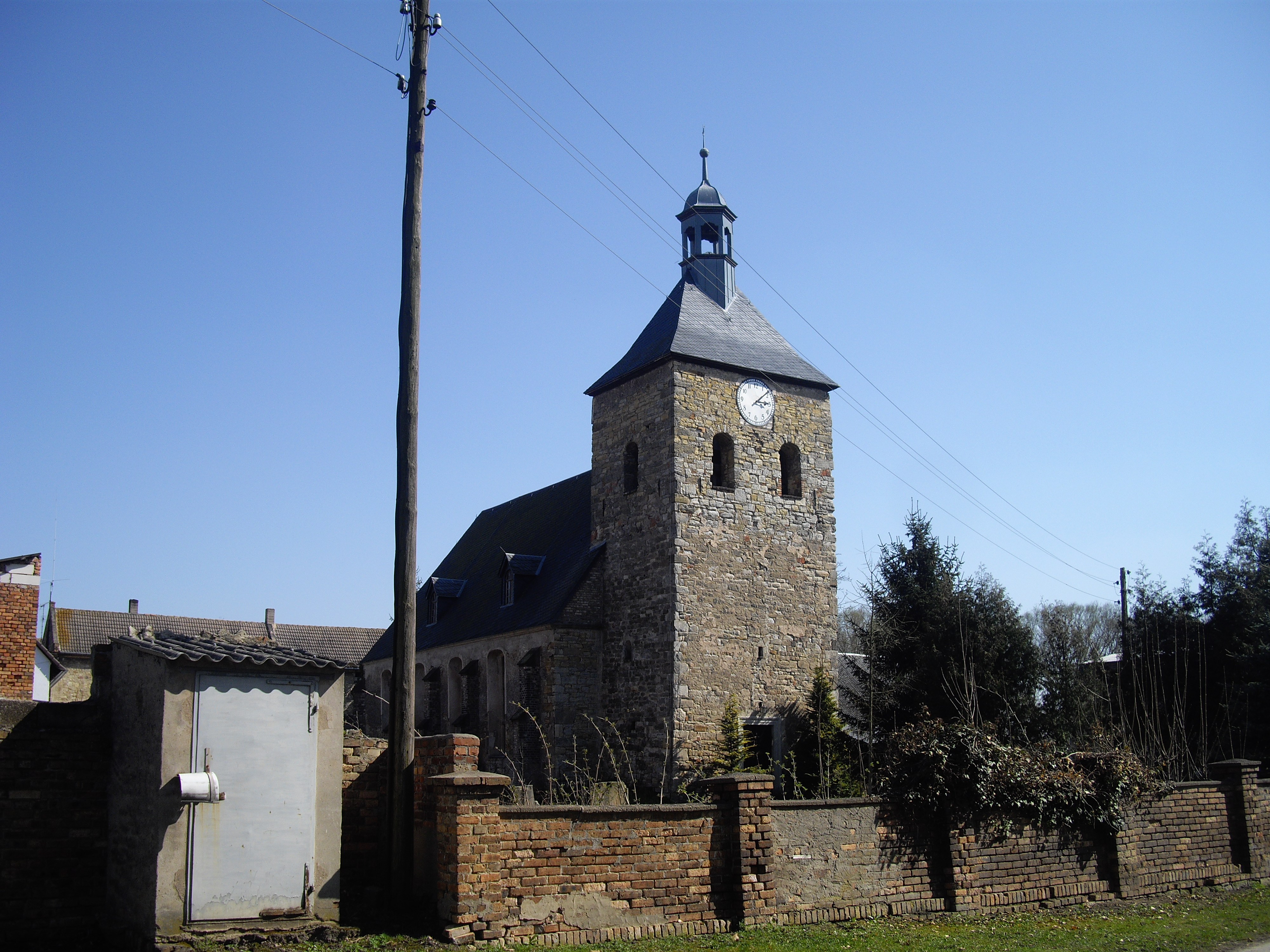 the church St. Susanna in Dederstedt, Germany